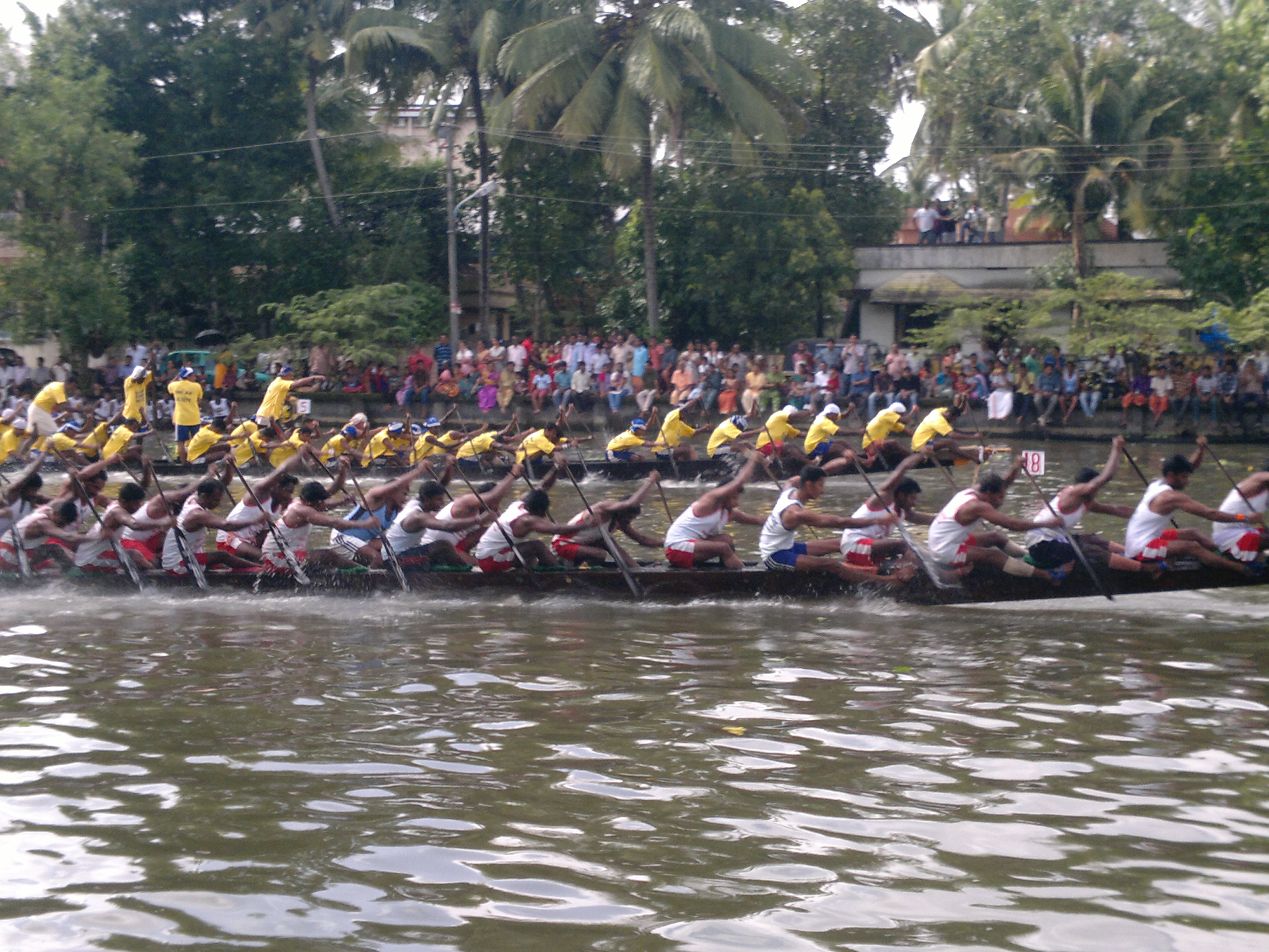 Dragon boat race - Champakkara, Ernakulam District, Kerala, India.